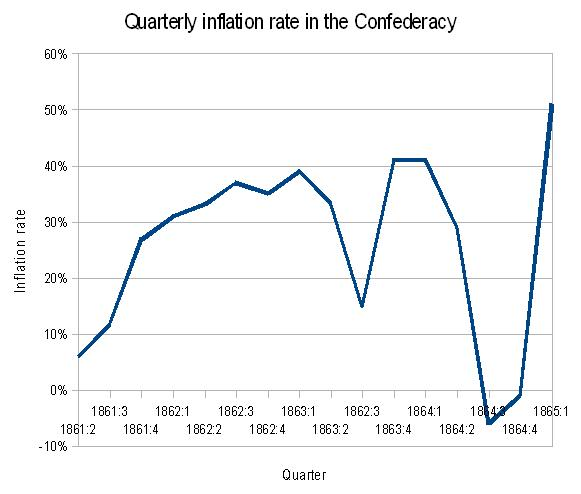 Inflation rate in the Confederacy during the American Civil War. Graph based on data in Burdekin and Langdana (1993) Explorations in Economic History.